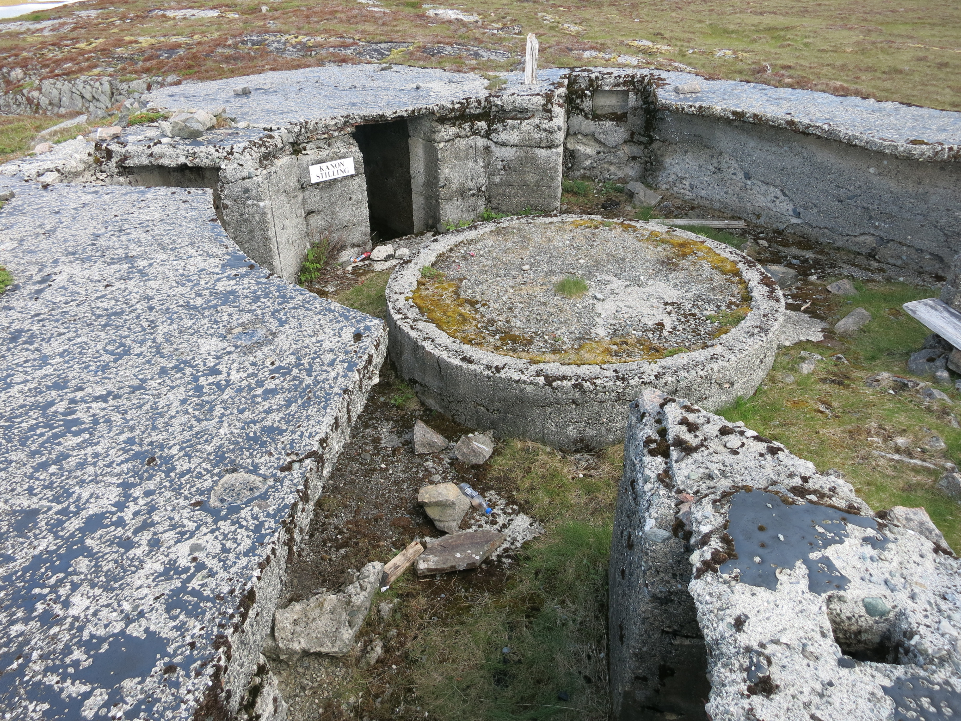 1940-45 radar station flak gun fundament remnants